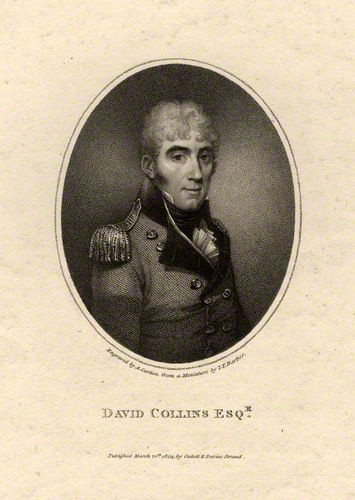 Portrait of David Collins (1754–1810), first Lieutenant Governor of the Colony of Van Diemens Land (Tasmania).